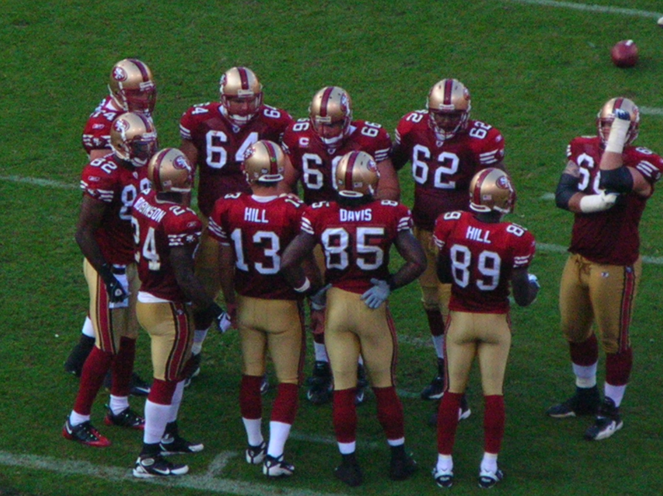 The San Francisco 49ers in a huddle during a regular season game against the St. Louis Rams. The 49ers won 35-16.